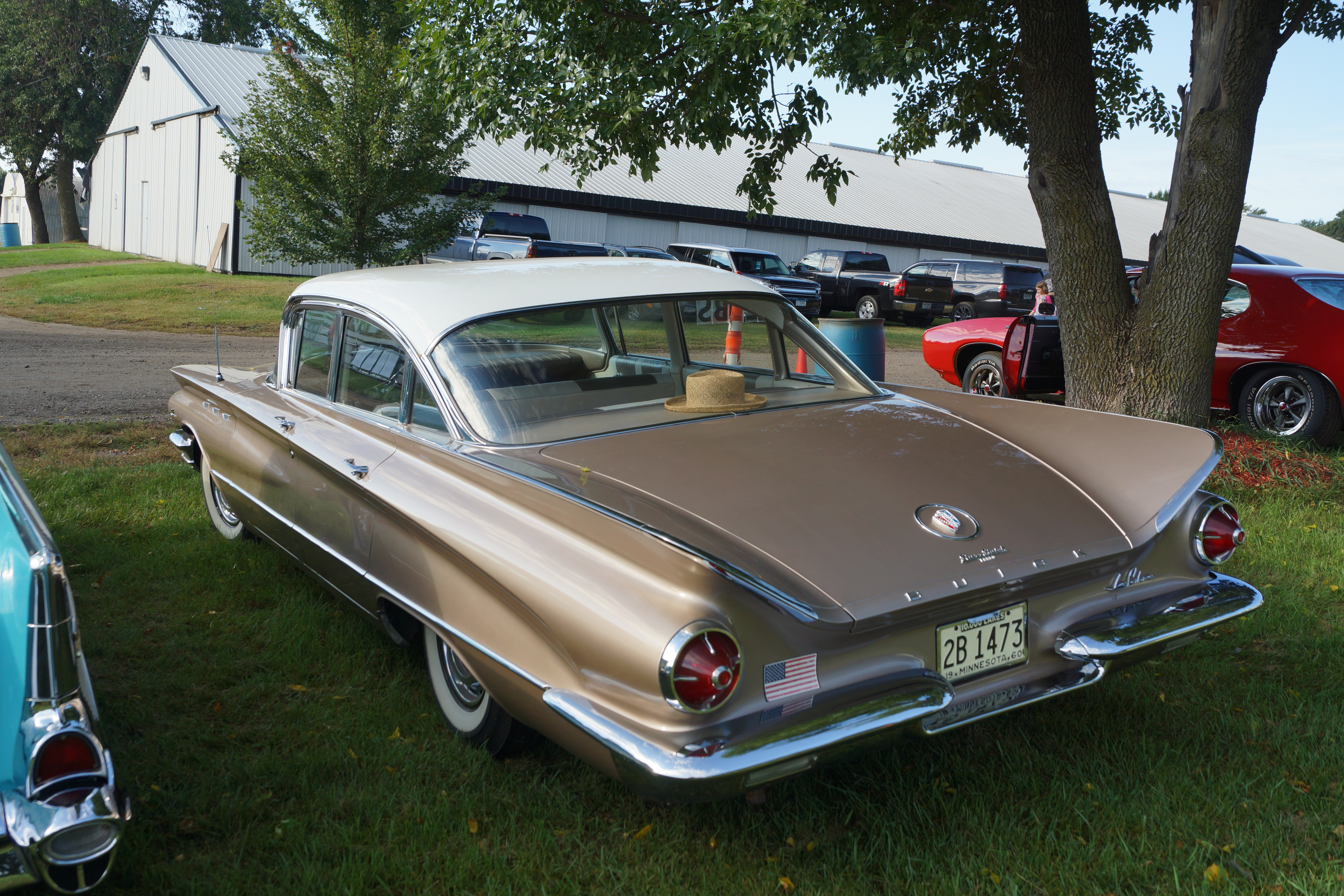 Auto Restorers Club of Southern Minnesota 40th Annual Car Show & Swap Meet Nicollet County Fairgrounds St. Peter, Minnesota September 2016 Click here for more car pictures at my Flickr site.